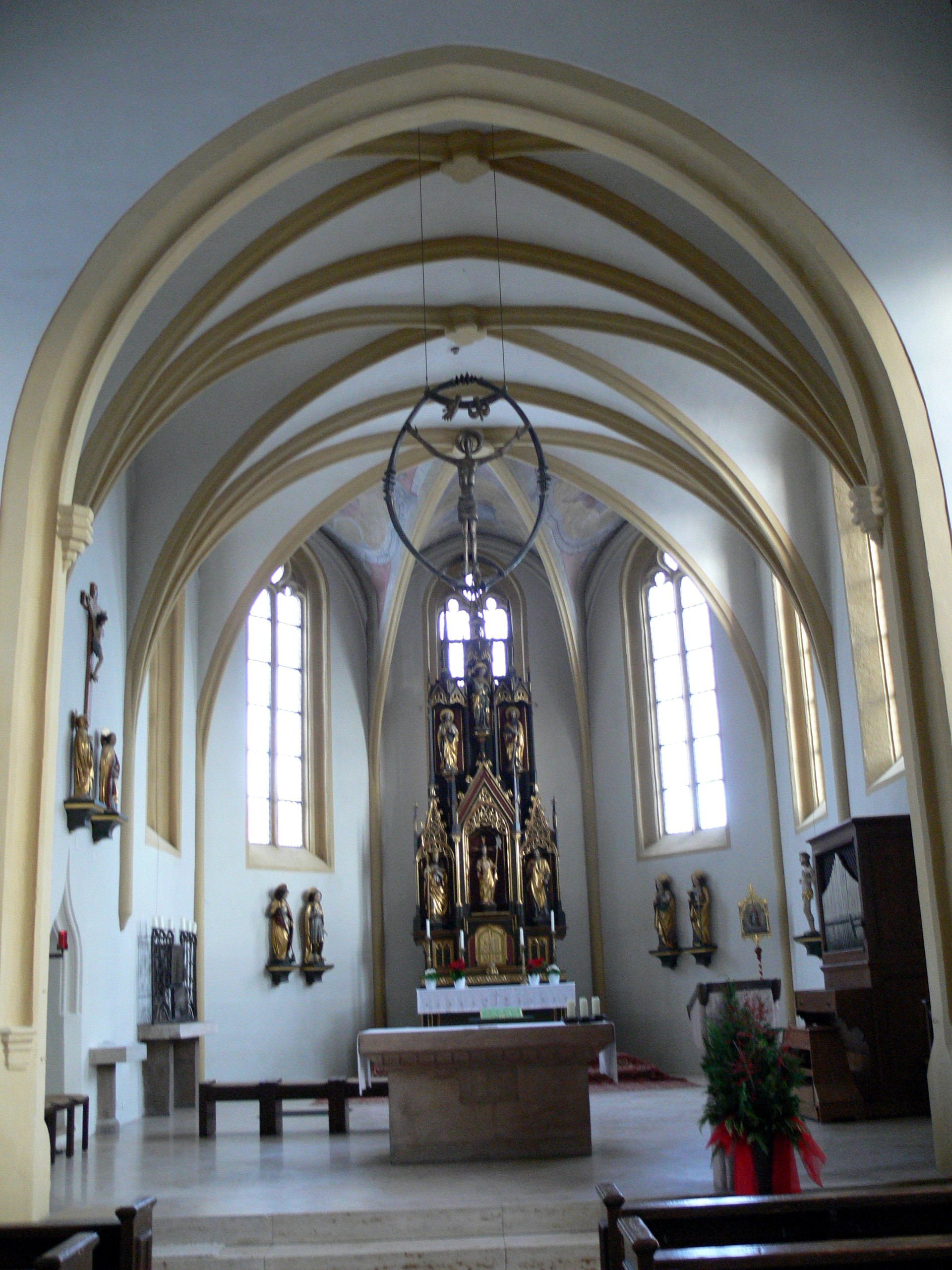 Saint Sixtus church in Erlangen-Büchenbach. Gothic choir ( 15th century ).